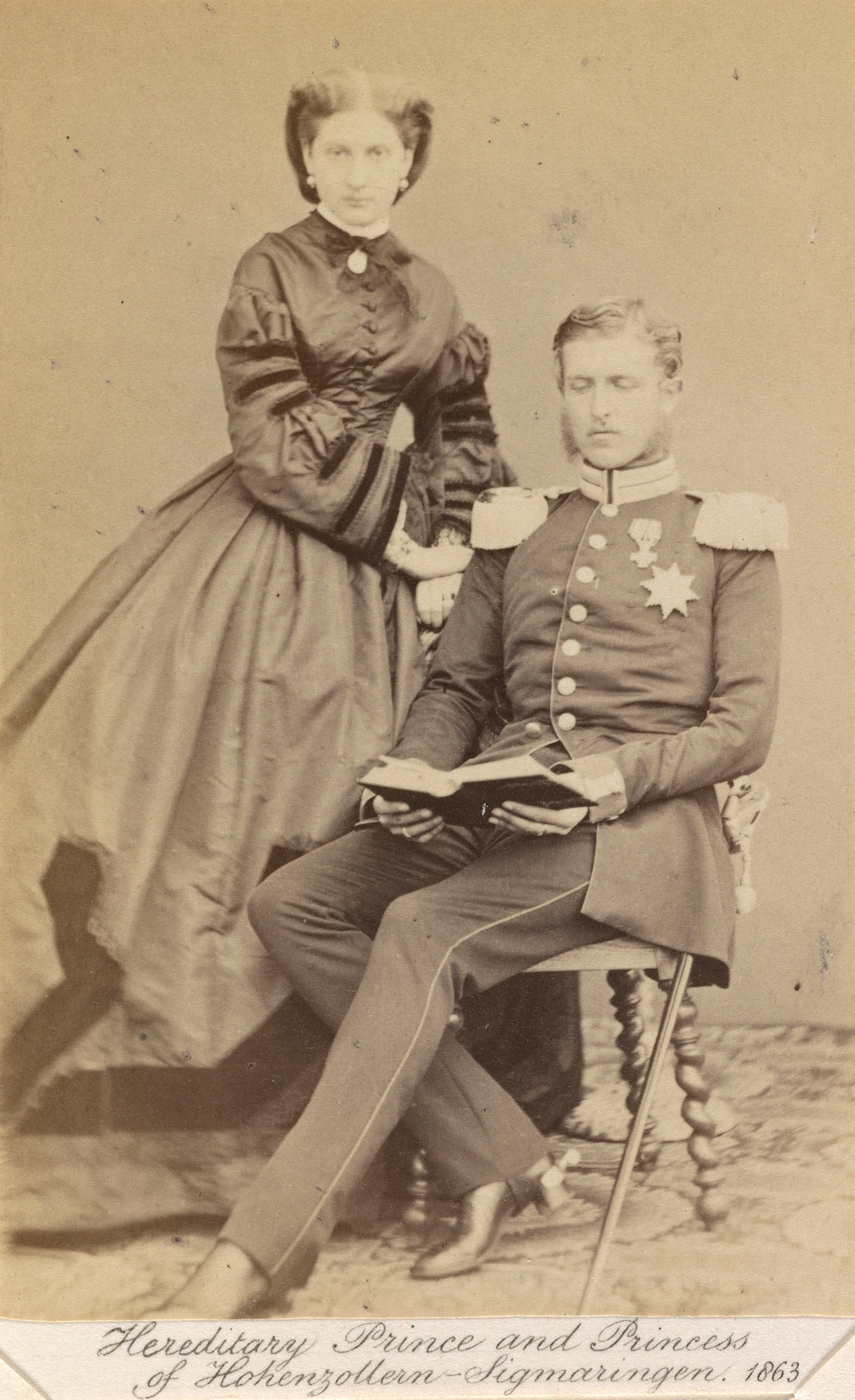 The Hereditary Prince and Princess of Hohenzollern-Sigmaringen: Leopold, Prince of Hohenzollern-Sigmaringen (1835-1905) and Antonia, Princess of Hohenzollern-Sigmaringen (1845-1913), in 1863